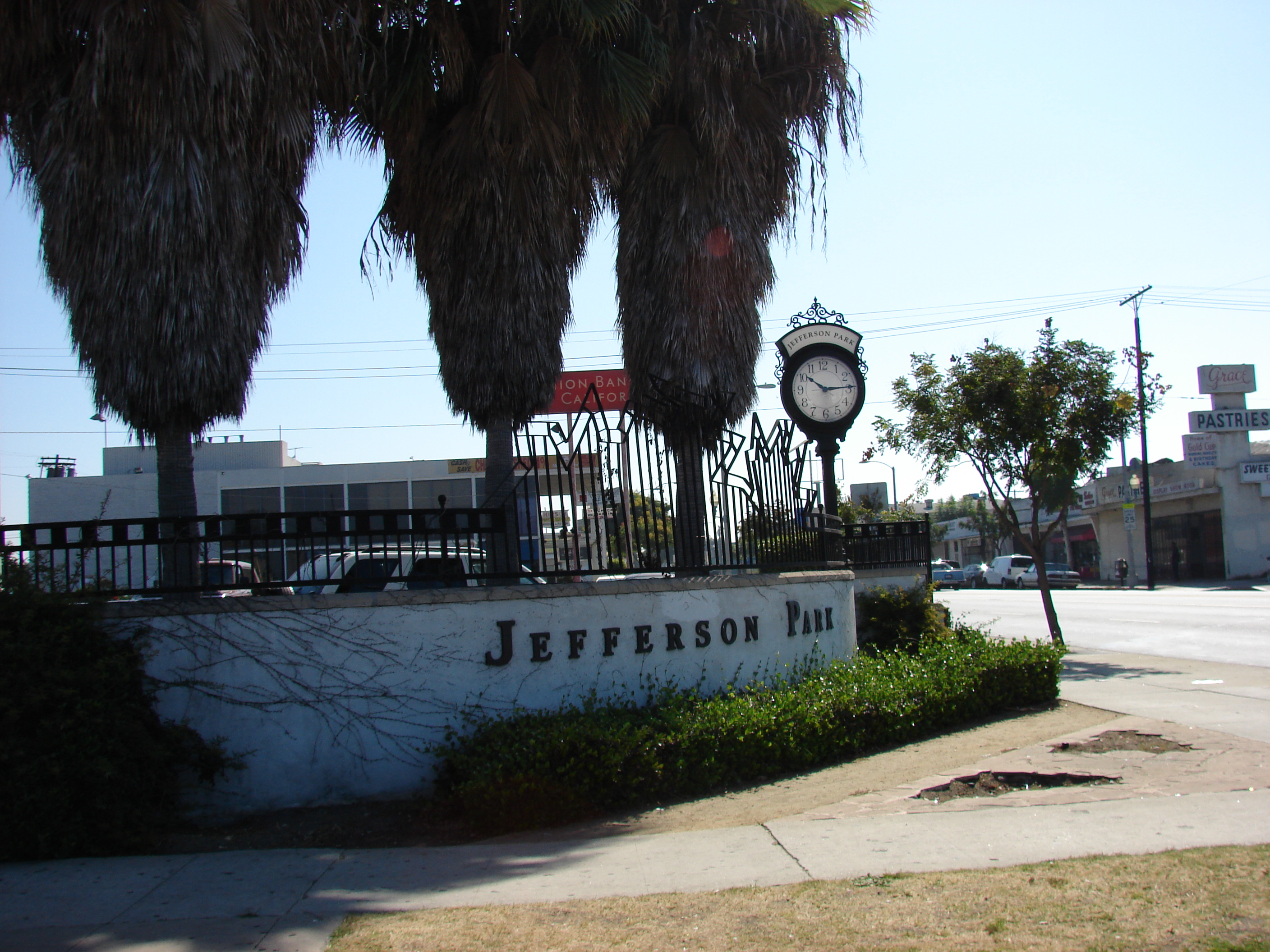 Southern Border of Jefferson Park at Crenshaw and Jefferson Boulevards.